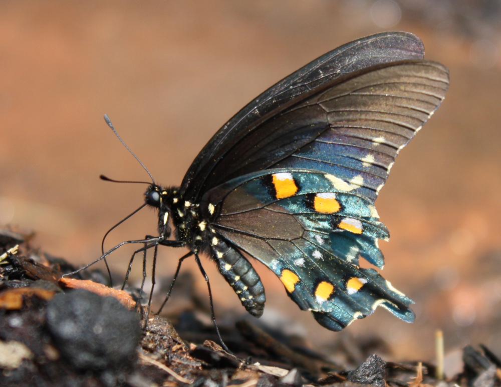 Pipevine swallowtail (Battus philenor), taket at Crystal Lakes, USA